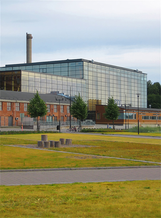 Sibelius hall in Lahti, Finland